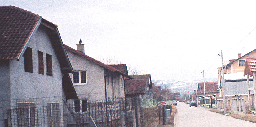 Image of Adice neighborhood in Novi Sad